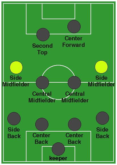 Position of SideMidfielder